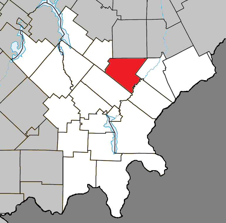 Location of Lac-Drolet, Quebec within Le Granit Regional County Municipality.